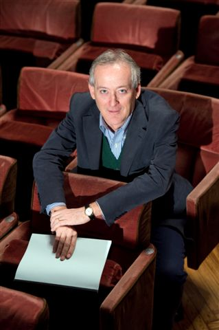 Italian theatre director Marco Bernardi.